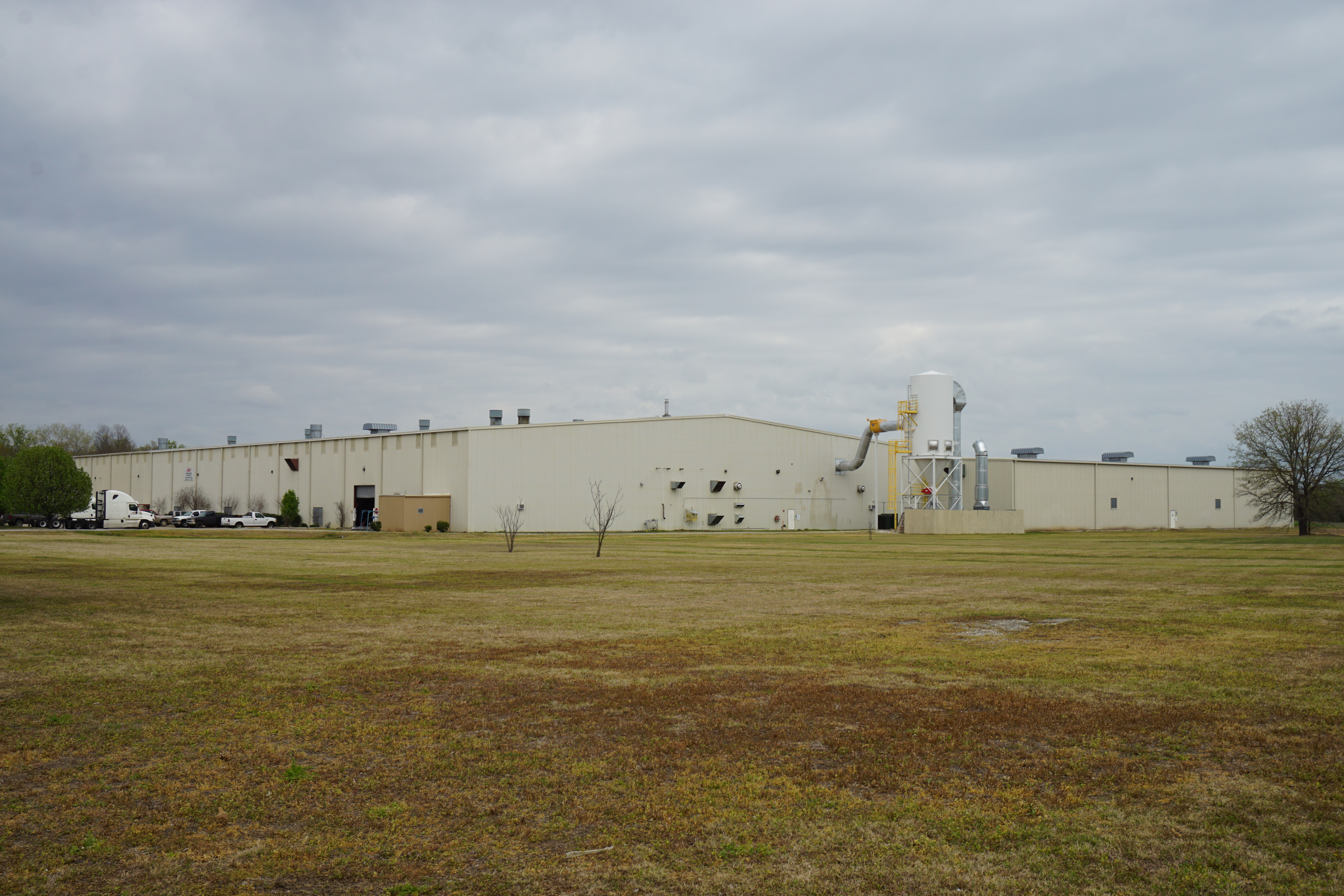 Mohawk Industries in Commerce, Texas (United States).